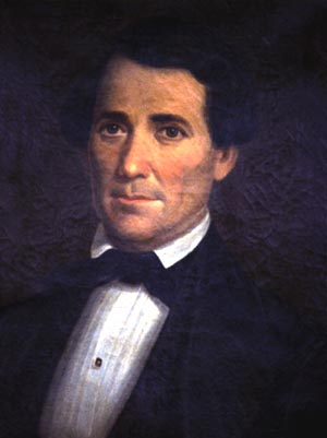 James Madison Wells (January 8, 1808 - February 28, 1899) was an elected Unionist Governor of Louisiana during Reconstruction.